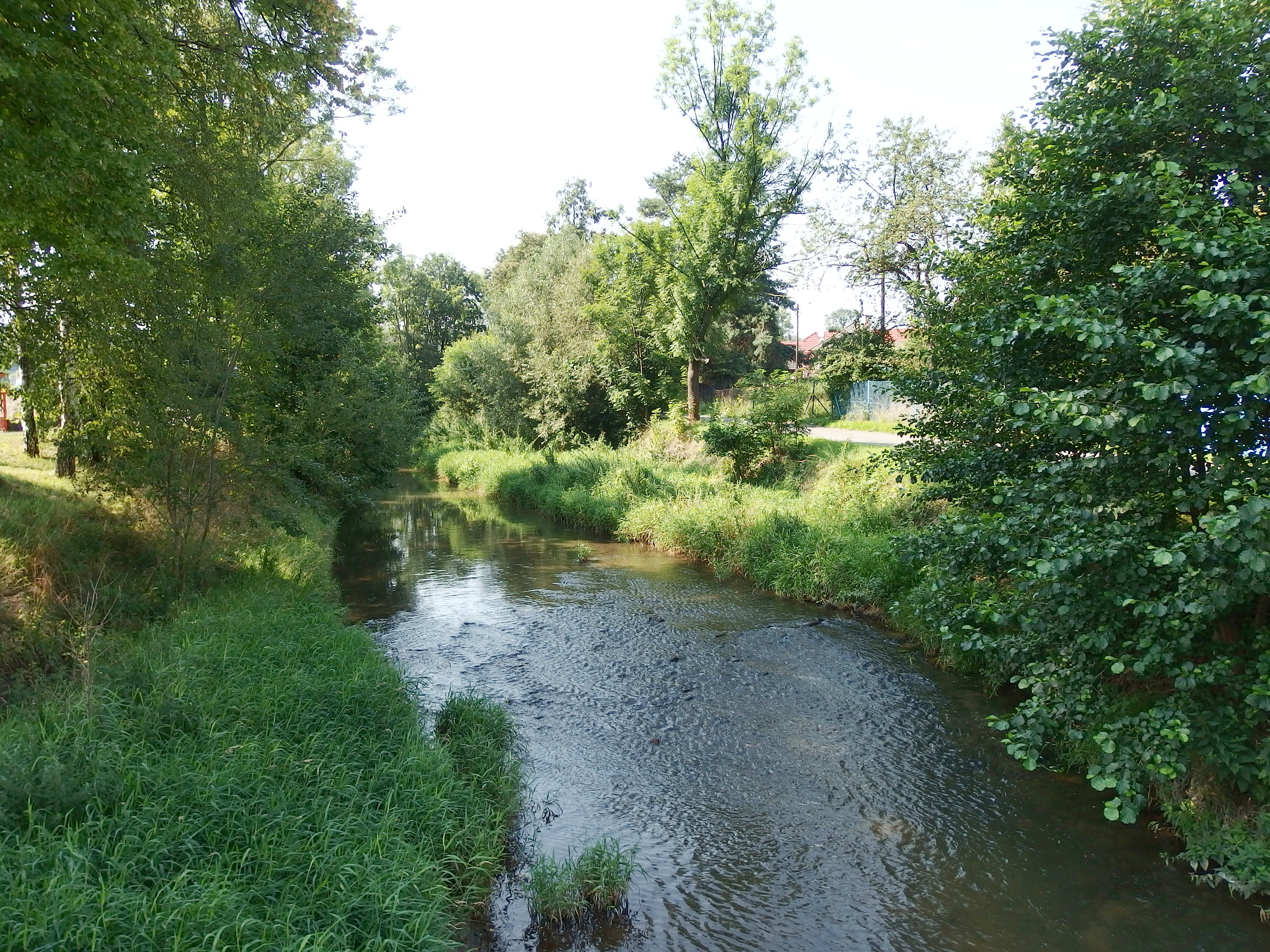 Kelč, Vsetín District, Czech Republic.